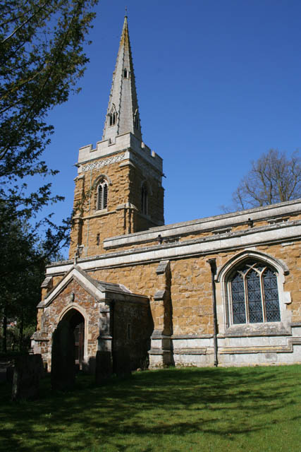 South front, St Peter's Church, Saxelbye